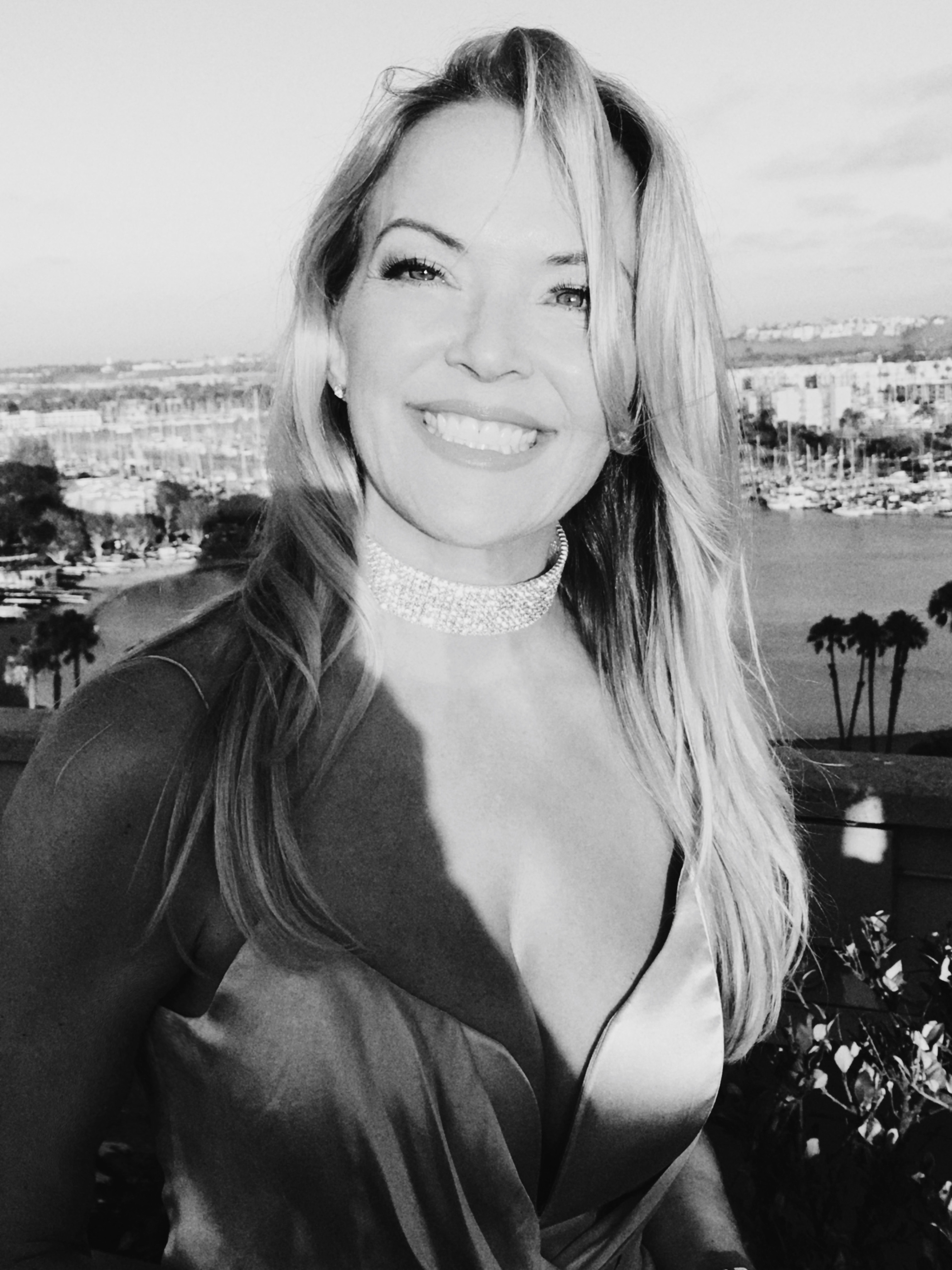 Brandy Ledford Davoudian